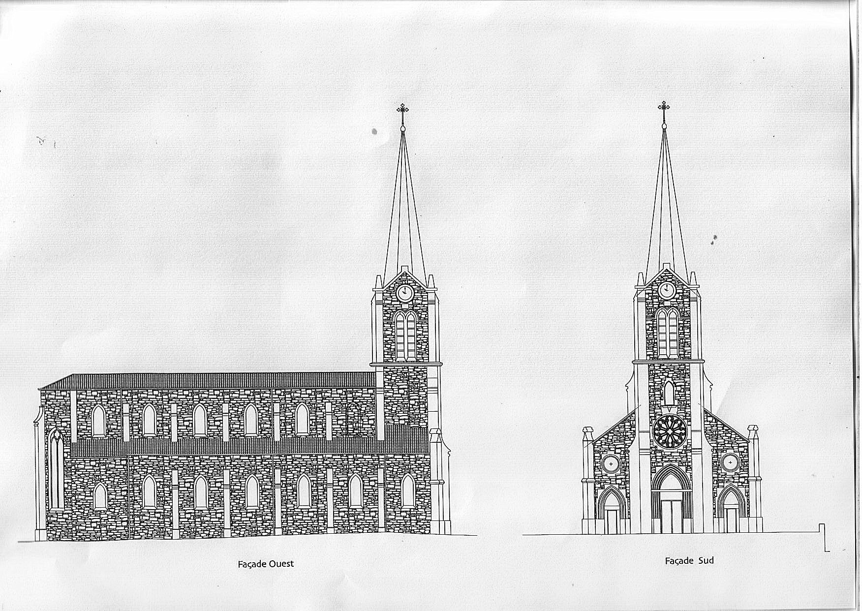 church plan